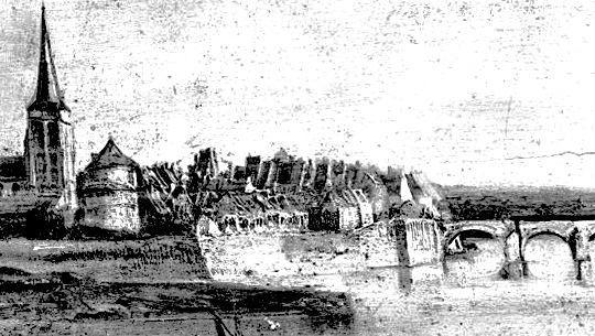 Maastricht, the Netherlands. View from the north of the right bank of the river Meuse in Maastricht around 1850. Detail of a painting by Alexander Schaepkens in the collection of Bonnefanten Museum, Maastricht.